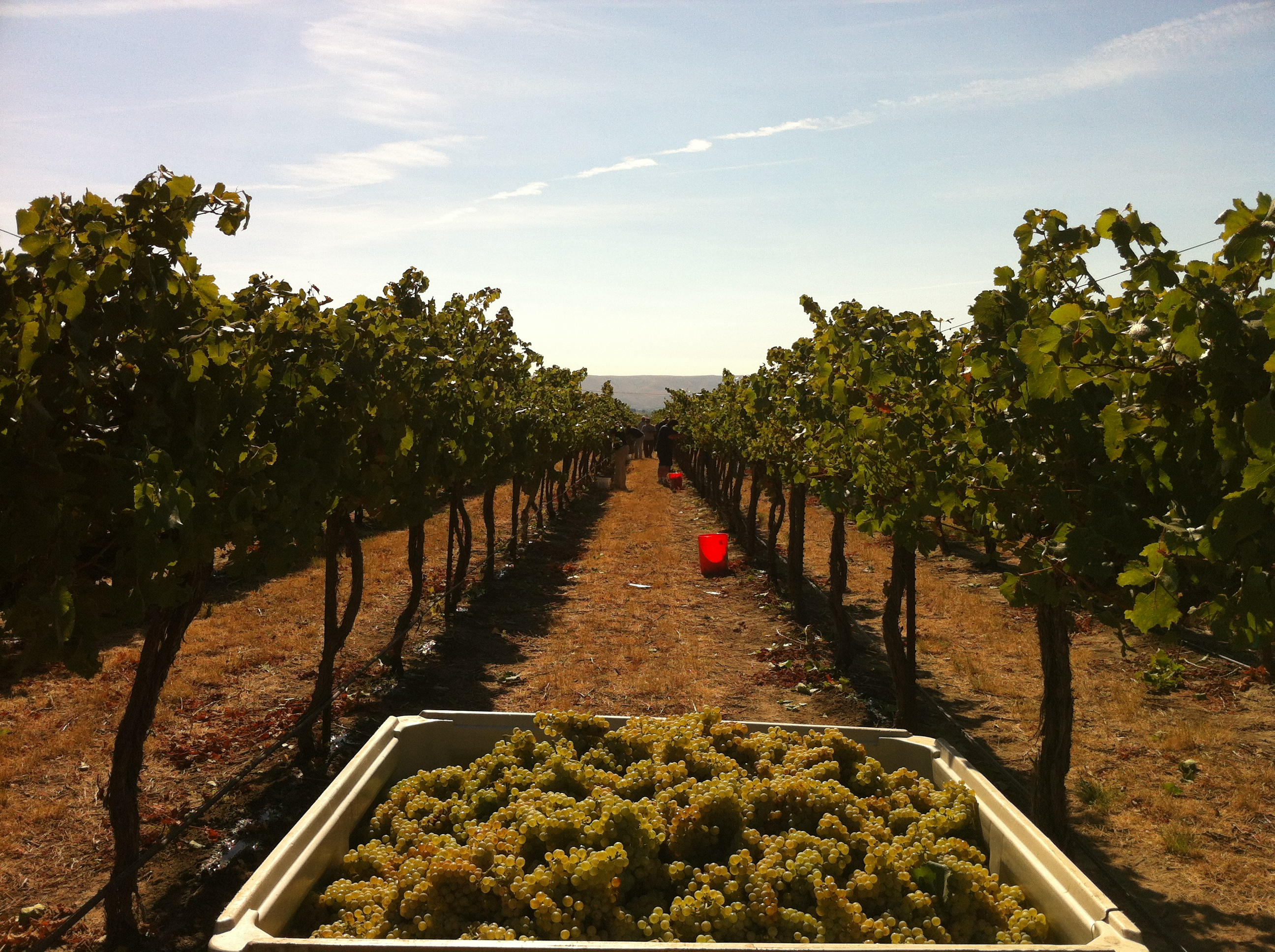 Chardonnay grapes in a harvest bin from Wykoff Vineyards in the Yakima Valley of Washington State